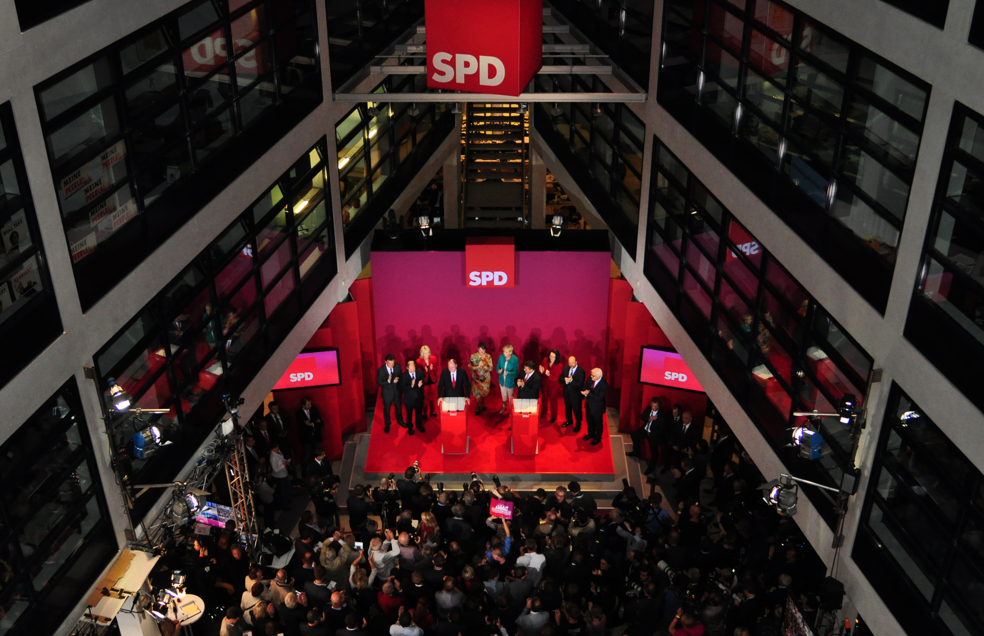 The federal election party SPD for the parliamentary election in 2013